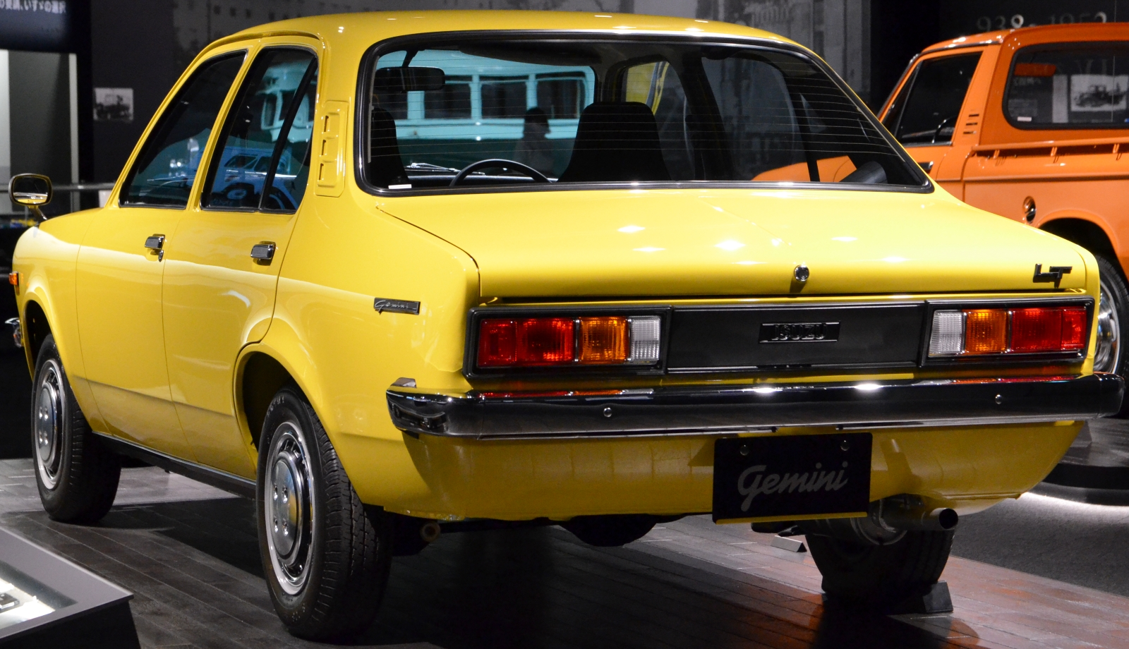 Isuzu Gemini LT